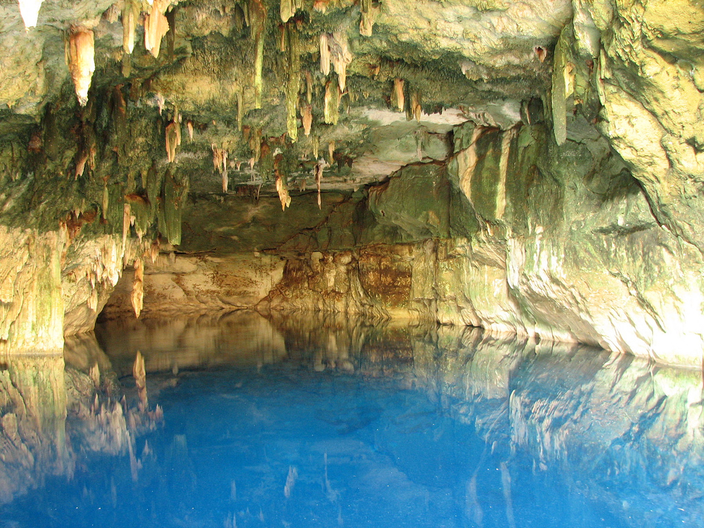 cenote in cuzama mexico I love this picture my very nice art. hope you enjoy it... I had to used my shoes as a tripod... ;)